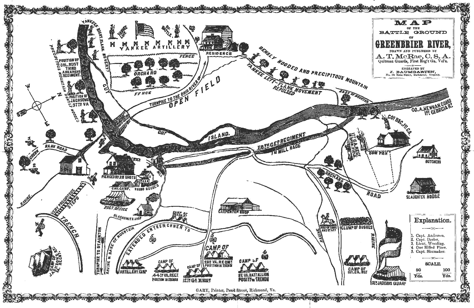 Map drawn and published by A.T. McRae, C.S.A., of the Battle of Greenbrier, West Virginia, Oct. 3, 1861, Pocahontas County.